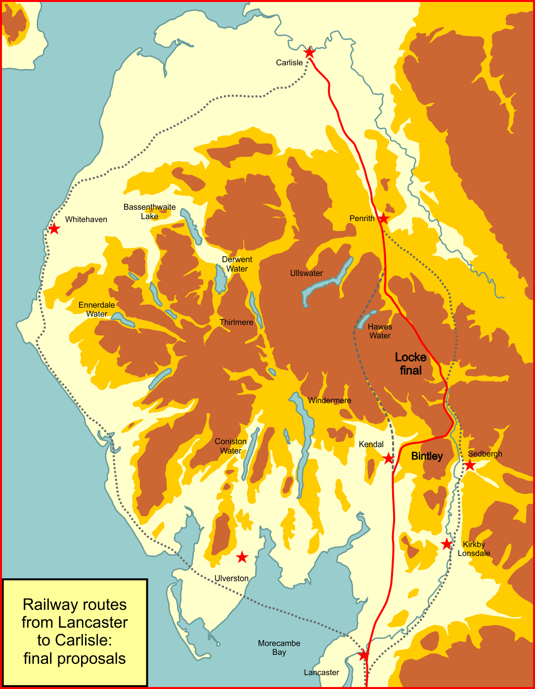 Diagram showing the selected route against earlier nineteenth century proposals for a railway route from Lancaster to Carlisle, Cumbria, England